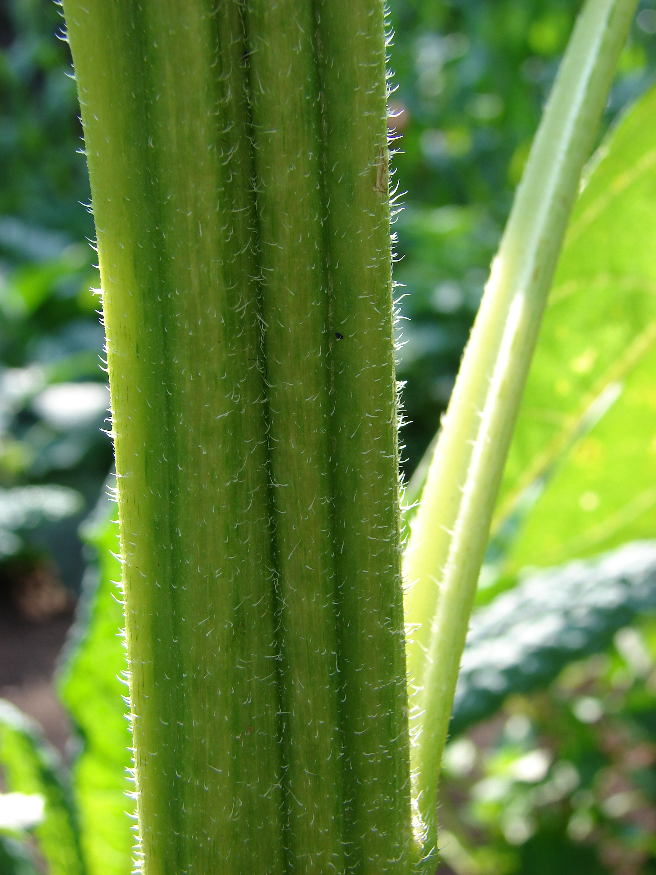 Helianthus annuus (stem). Location: Maui, Makawao